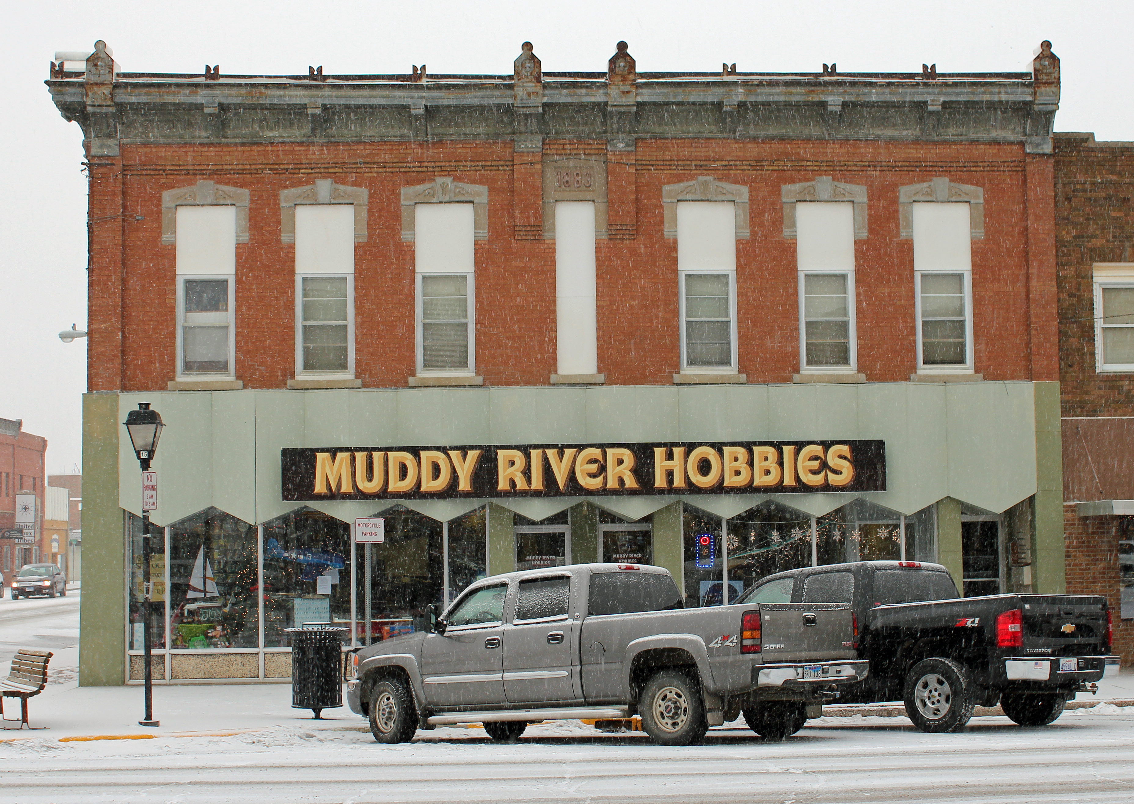 Hilger Block, located at 361 South Pierre Street in Pierre, South Dakota. The building is listed on the National Register of Historic Places.